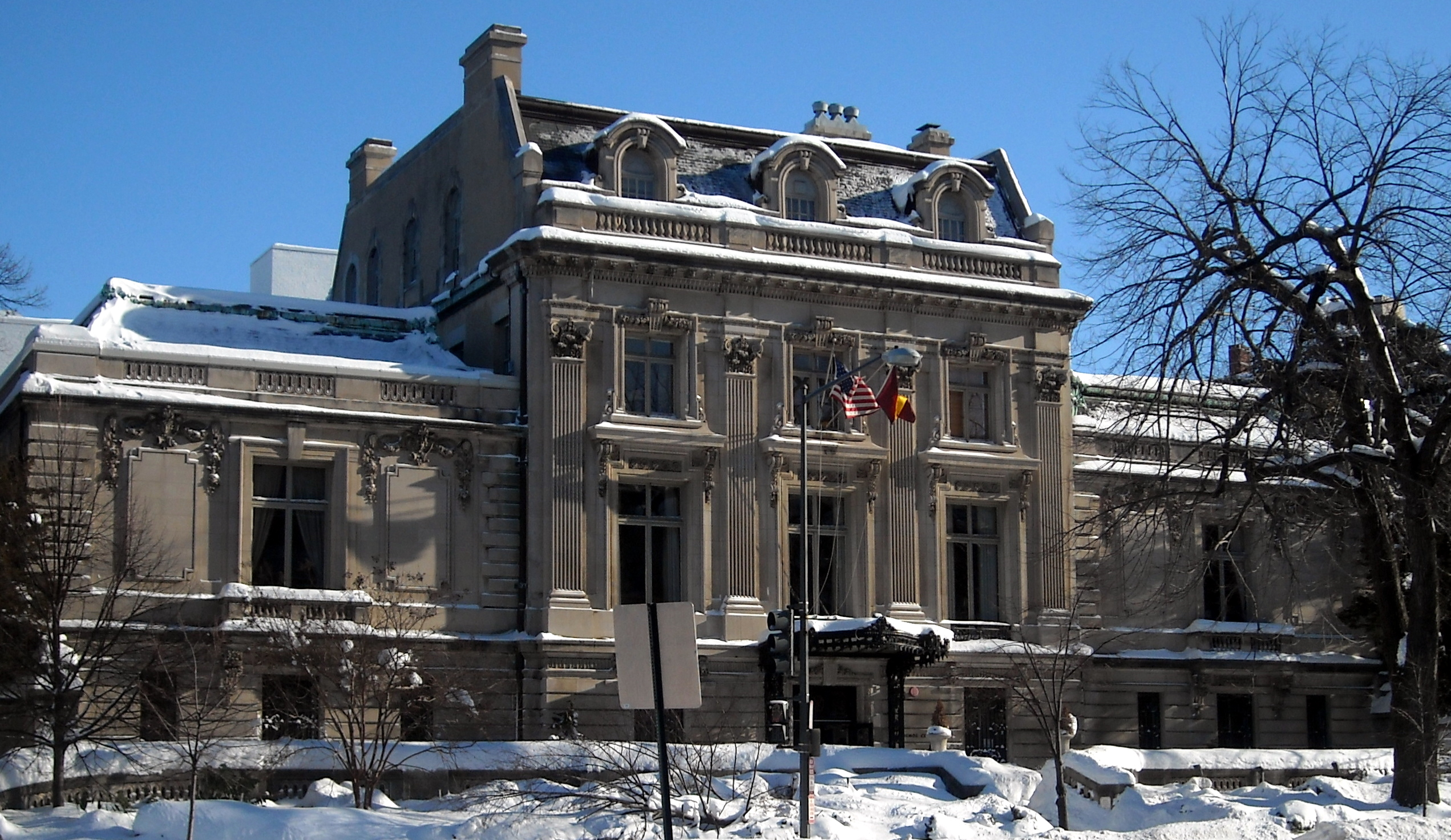 The Cosmos Club, located at 2121 Massachusetts Avenue, N.W., in the Dupont Circle neighborhood of Washington, D.C., following the Second North American blizzard of 2010.